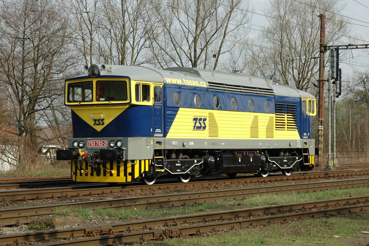 Locomotive 753.782 of Traťová strojní společnost (TSS) railway operator, Louky nad Olší, Czech Republic